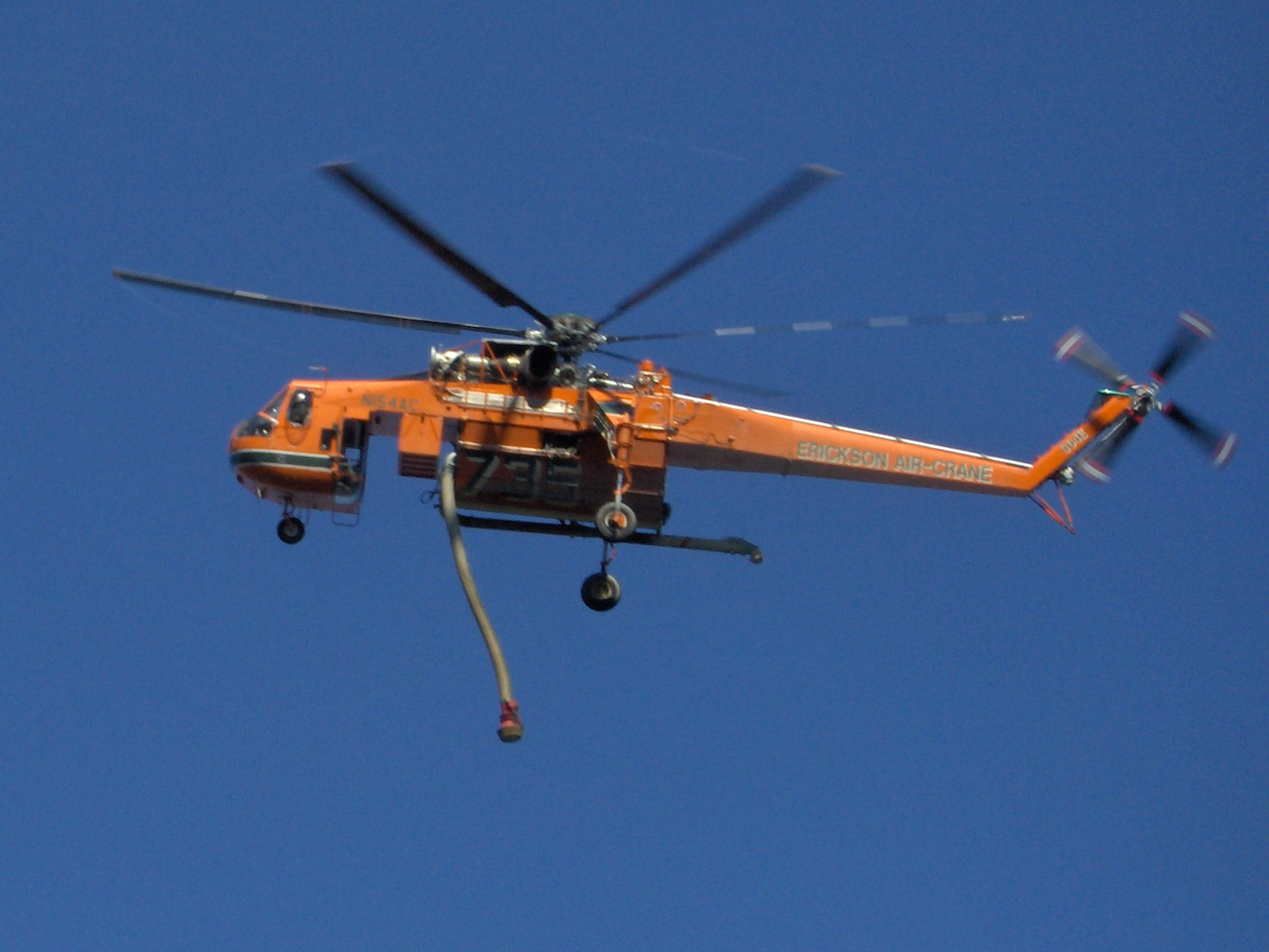 An Erickson Air-Crane S-64 Skycrane firefighting helicopter leased by the Hellenic Fire Service. Photo from 3rd and 4th days of the fire in Parnitha.